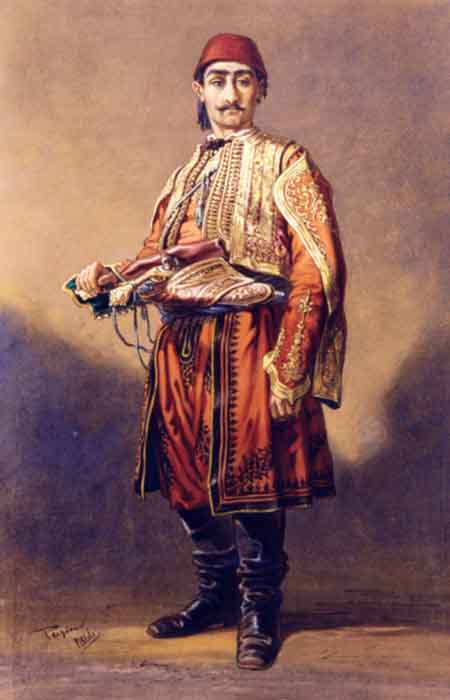 an aquarelle by Amedeo Preziosi